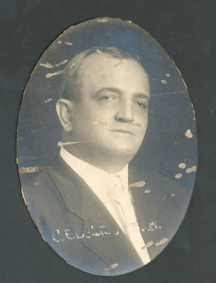 Depicted person: Charles E. Coates – American academic, chemist, and player and coach of American football